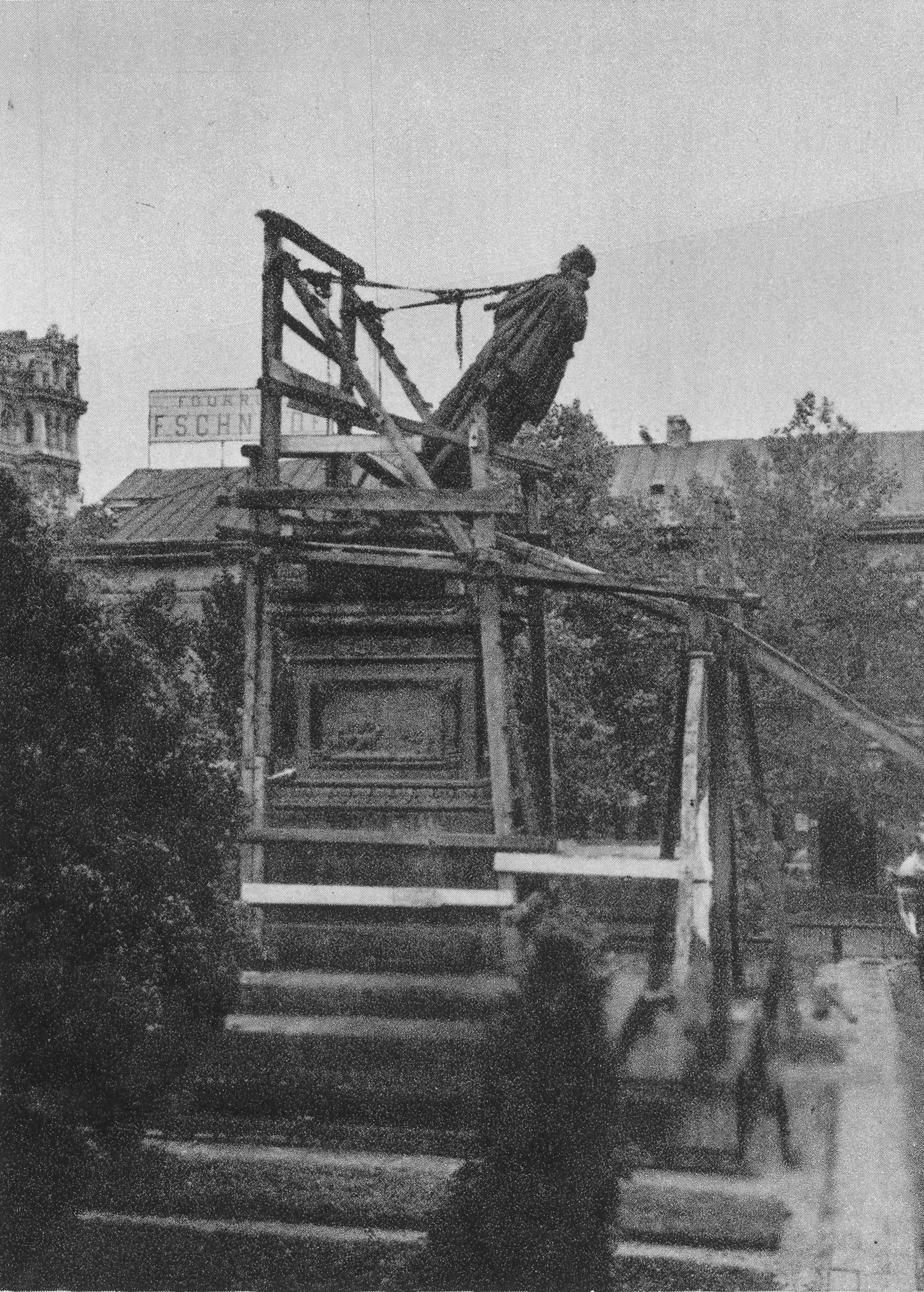 Demolition of the Statue of Ivan Paskevich in Warsaw